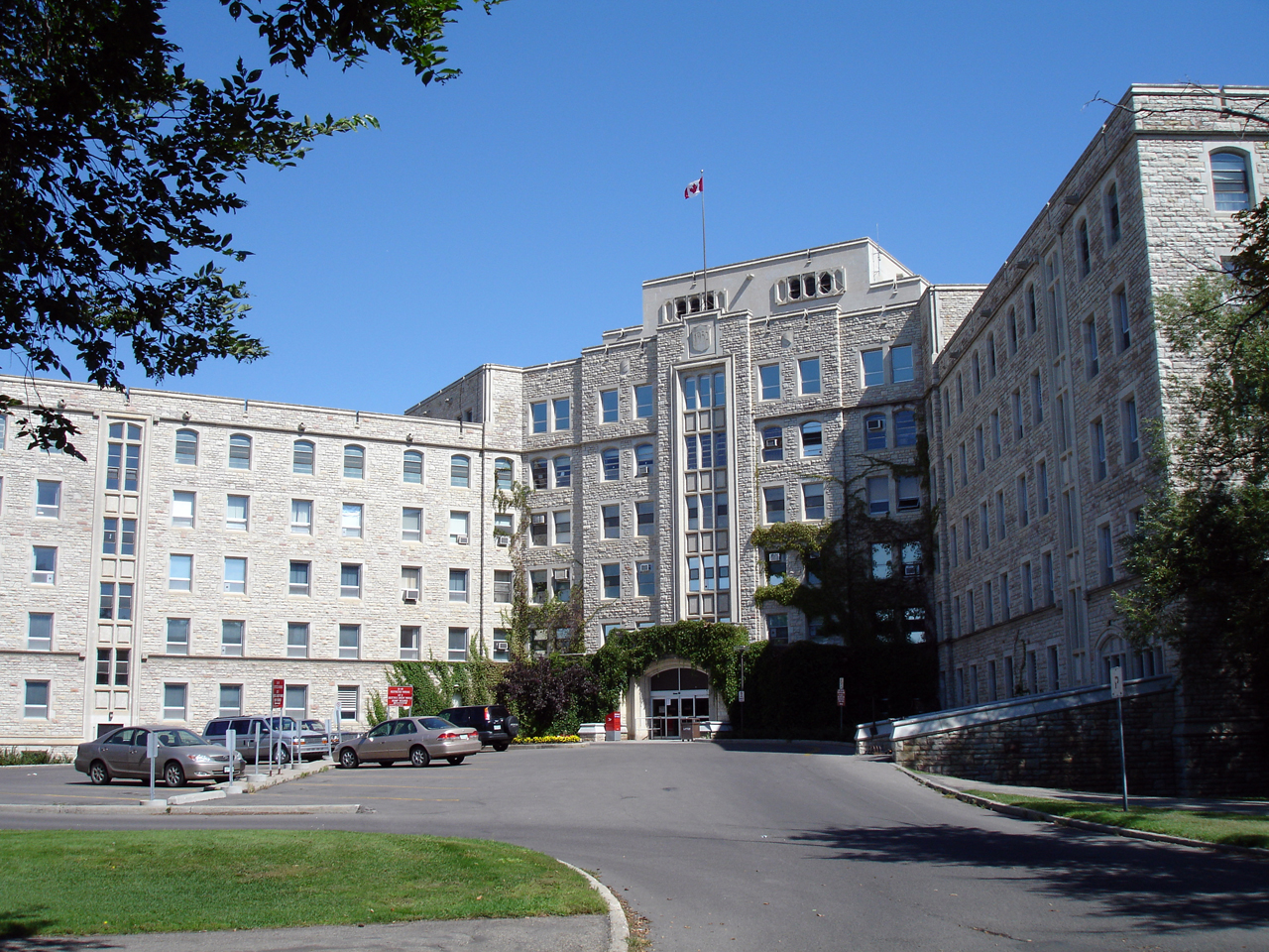 Royal University Hospital original structure, on the University of Saskatchewan campus in Saskatoon, Saskatchewan, Canada.